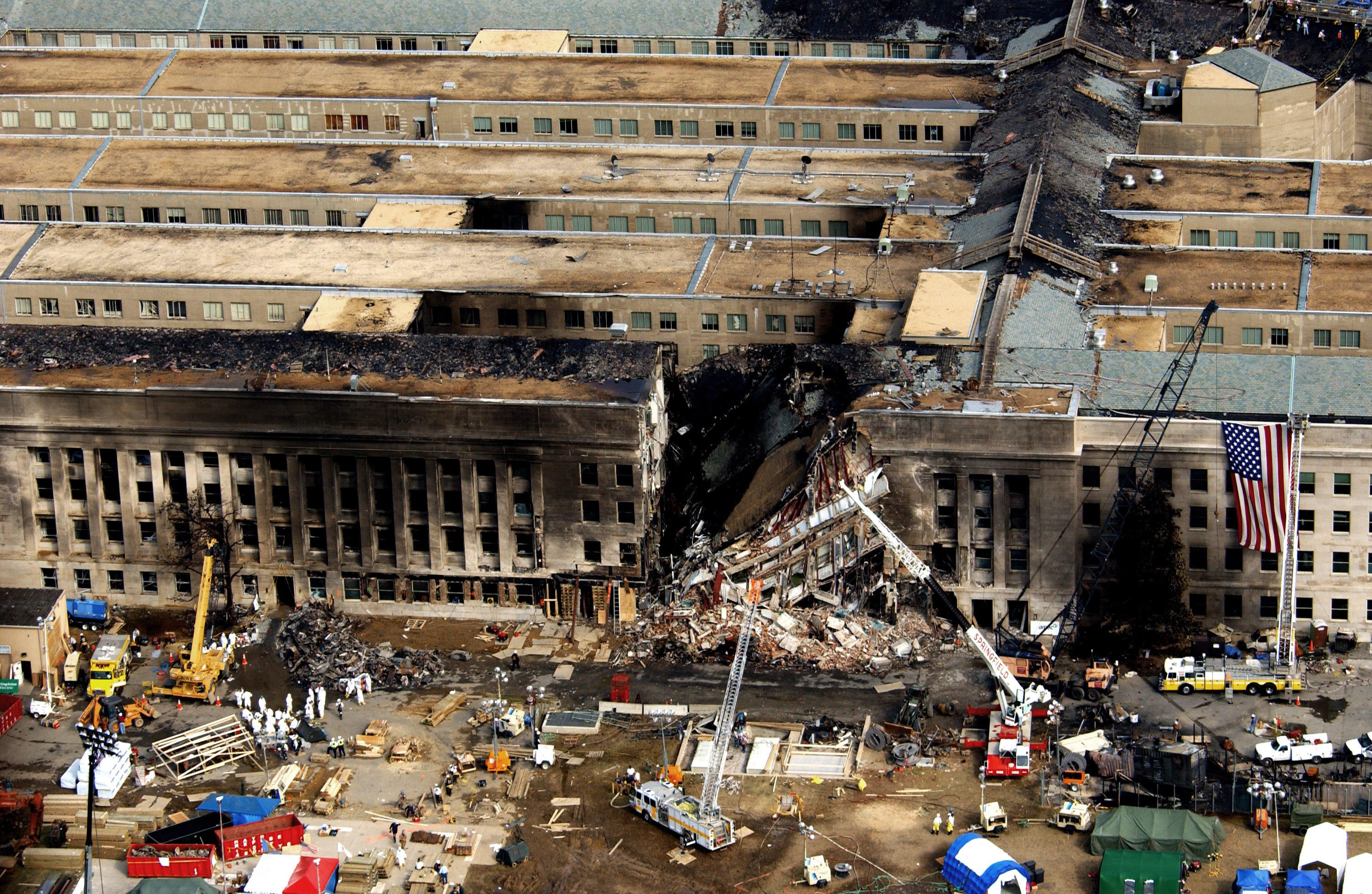 Aerial view of the Pentagon Building located in Arlington, Virginia showing emergency crews responding to the destruction caused when a high-jacked commercial jetliner crashed into the southwest corner of the building, during the 9/11 terrorists attacks.